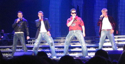 no original description